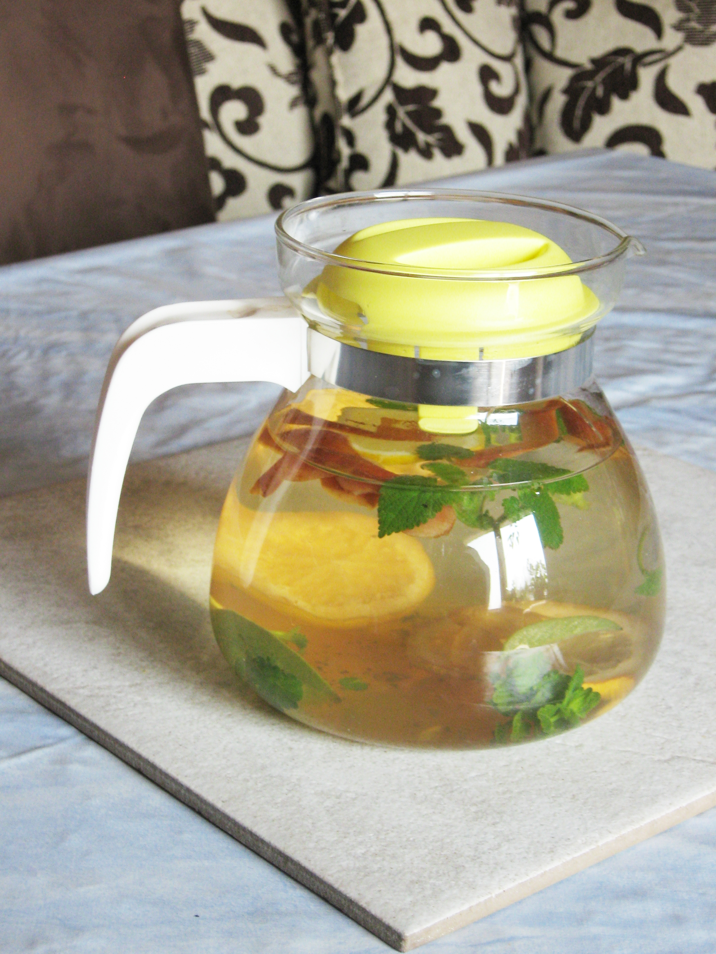 Tea with fresh herbs, apple and citrones